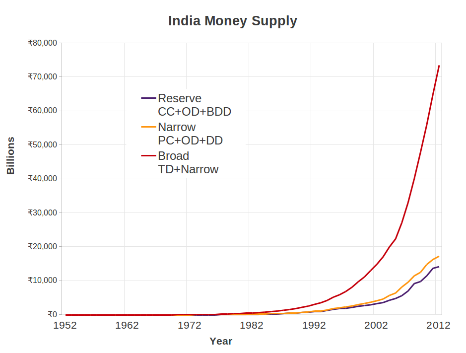 Plot (LibreOffice Calc) of Reserve Bank of India (RBI) time series data for Rupee Money Supply Components for the years 1950 through 2011, public domain tabular data available at Formatted and computed (appropriate tabular data columns added and subtracted) April 5, 2013 by Hobson Lane